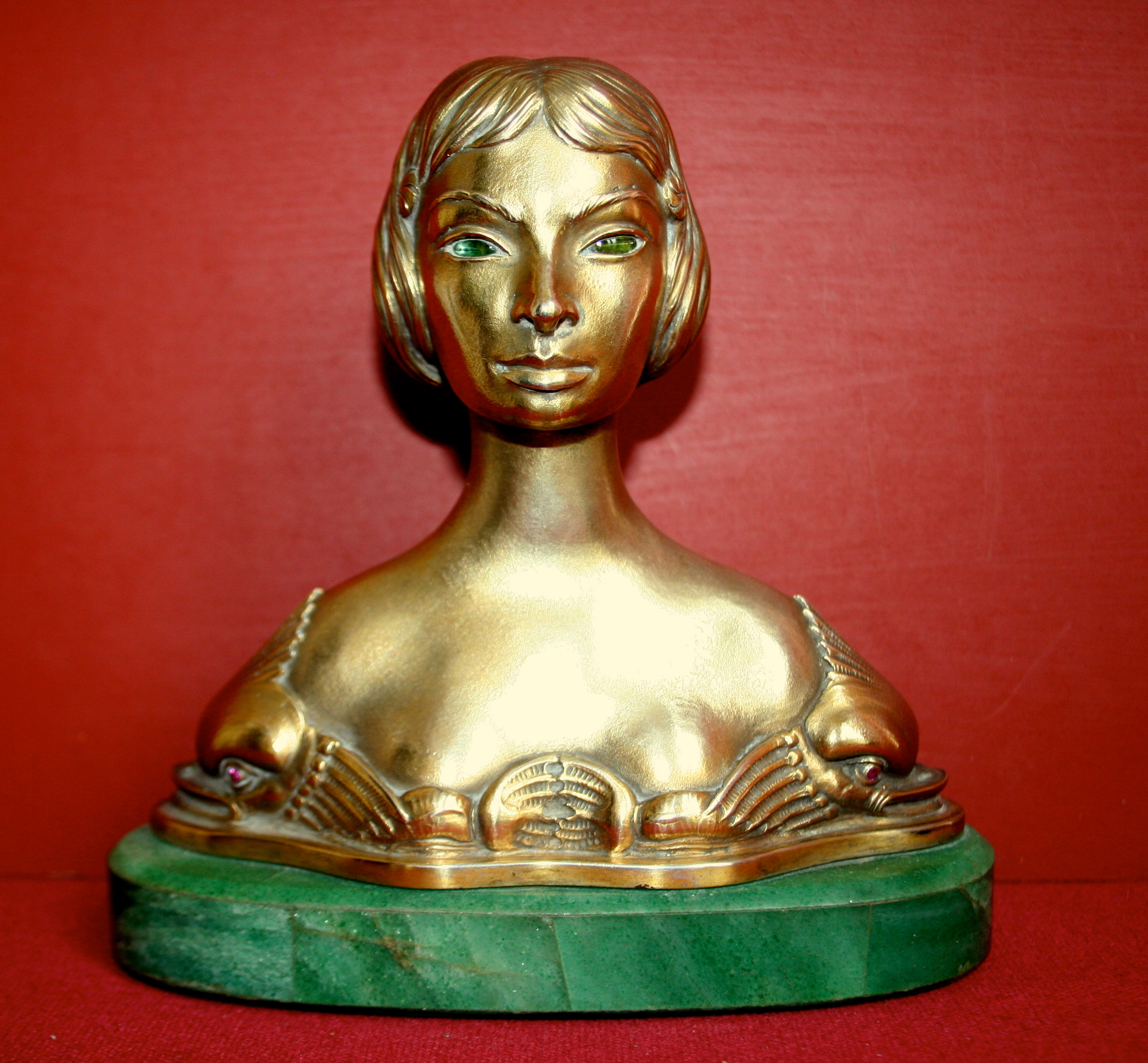 Pincess Soraya Esfandiary-Bakhtiary by Renato Signorini (Asmara 1902 - Rome 1966)